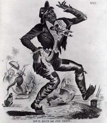 Picture from 1832 Playbill of Thomas D. Rice as "Jim Crow"